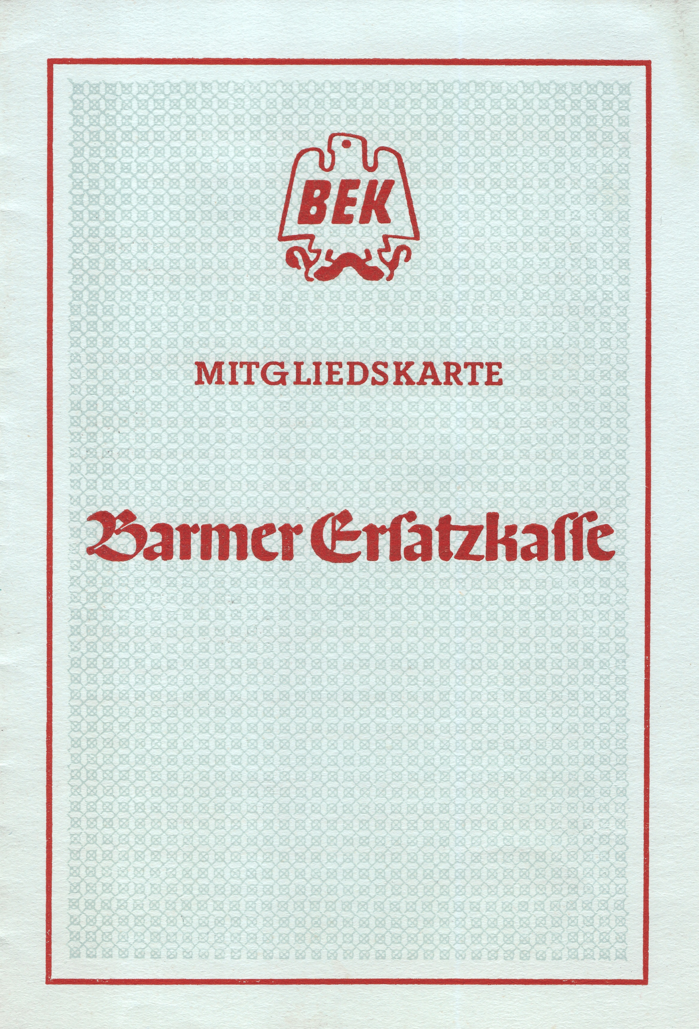 Cologne, Germany: Membership card of the health insurance "Barmer Ersatzkasse", issued by the company's district administration Cologne in the year 1955.